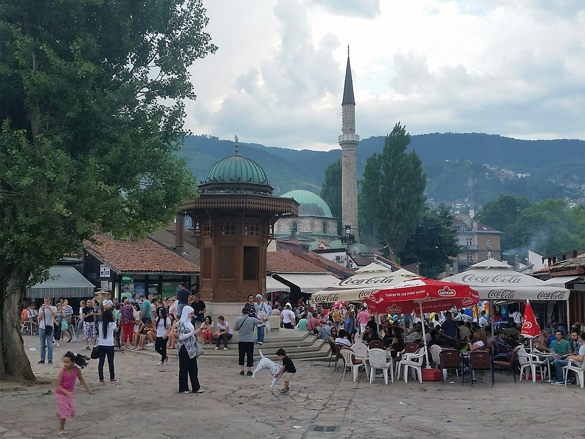 The Sebilj in Sarajevo